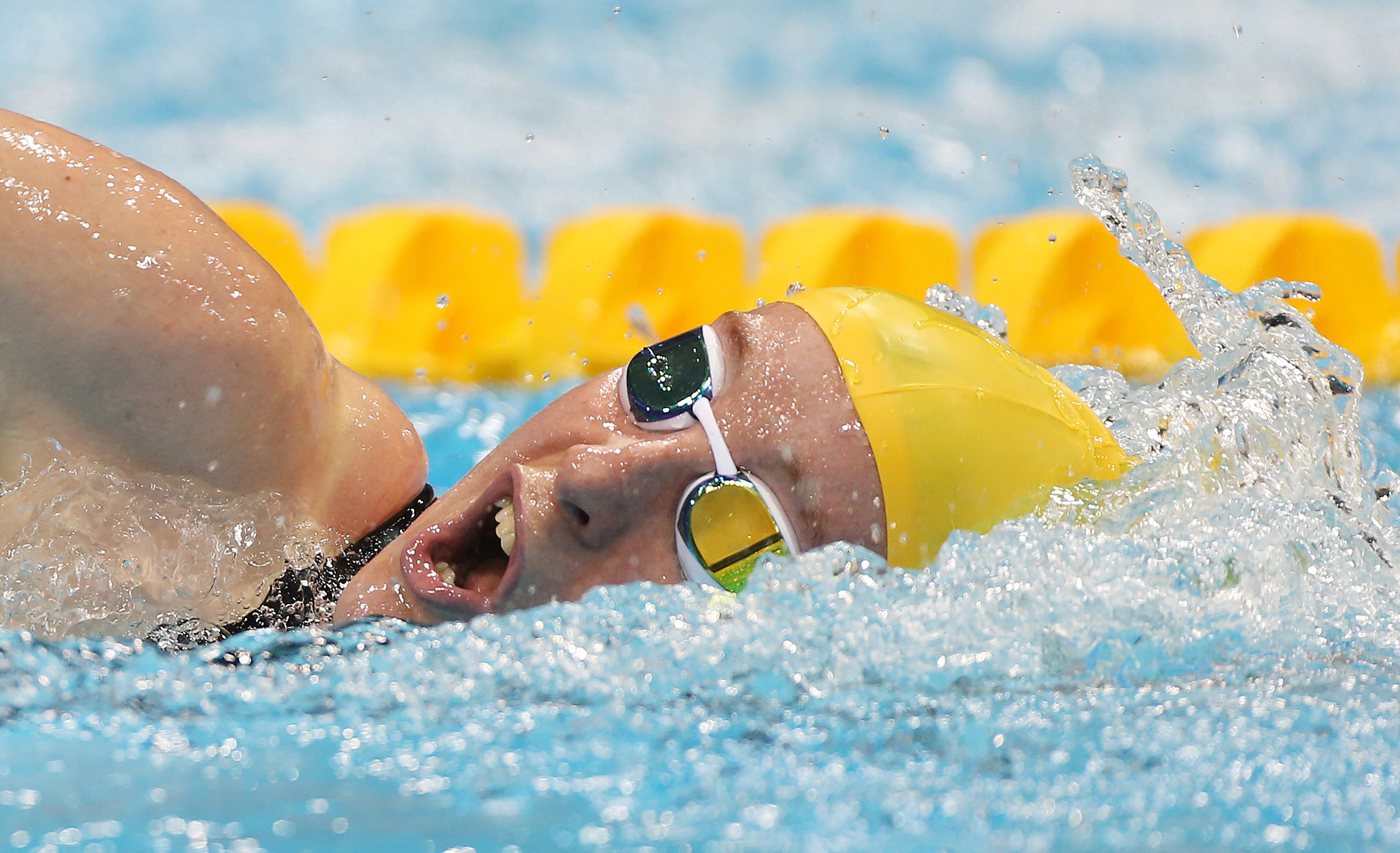 Photograph of Australian Paralympic team member Prue Watt at the 2012 Summer Paralympic Games in London